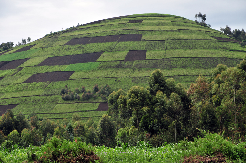 Pic by Neil Palmer (CIAT). The patchwork fields in Kisolo, SW Uganda.